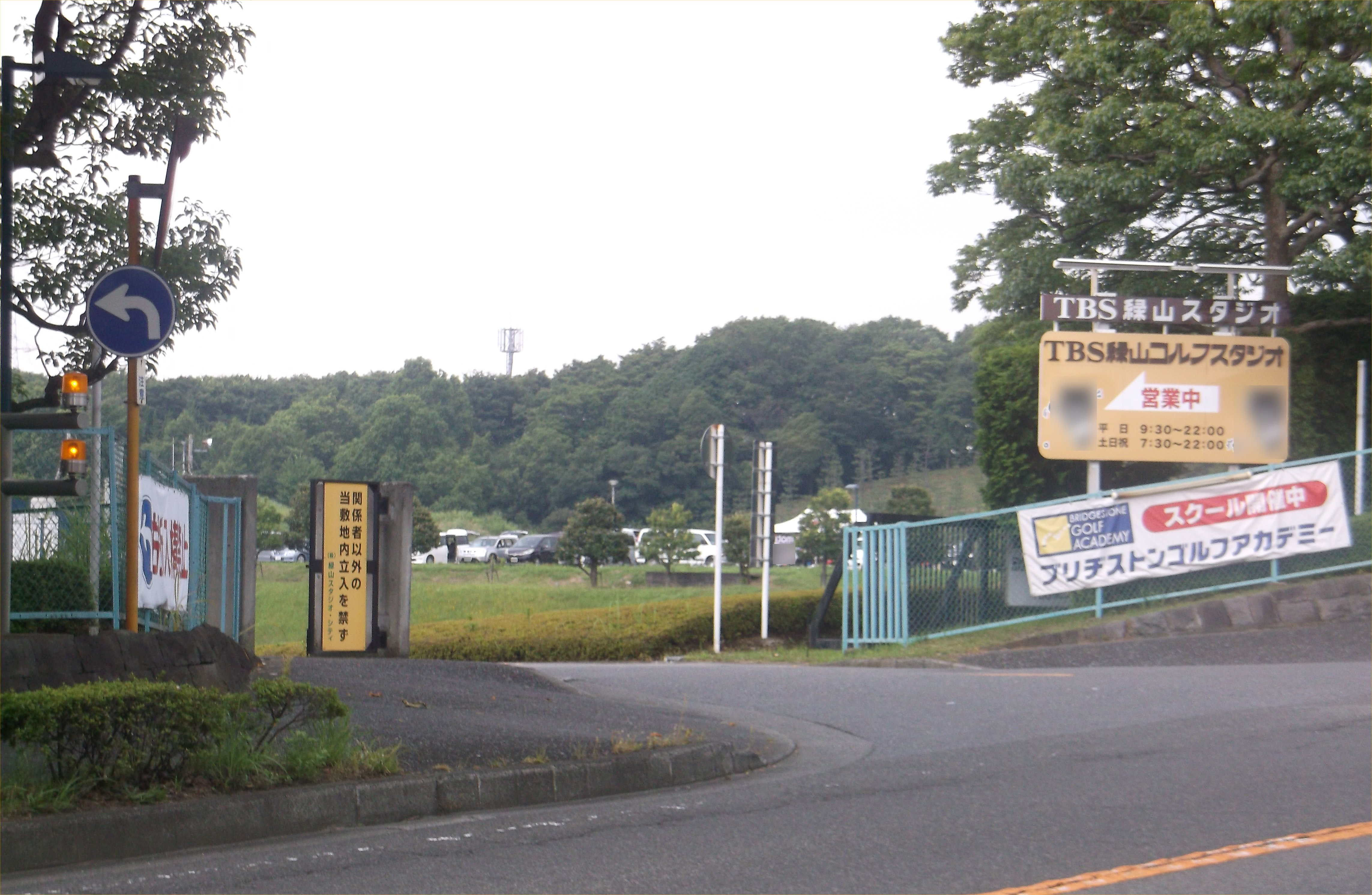 A photo of an entrance of TBS Midoriyama Golf Studio at Midoriyama Studio City(also TBS Midoriyama Studio)Midoriyama,Aoba-ku,Yokohama city,Kanagawa pref.,Japan.